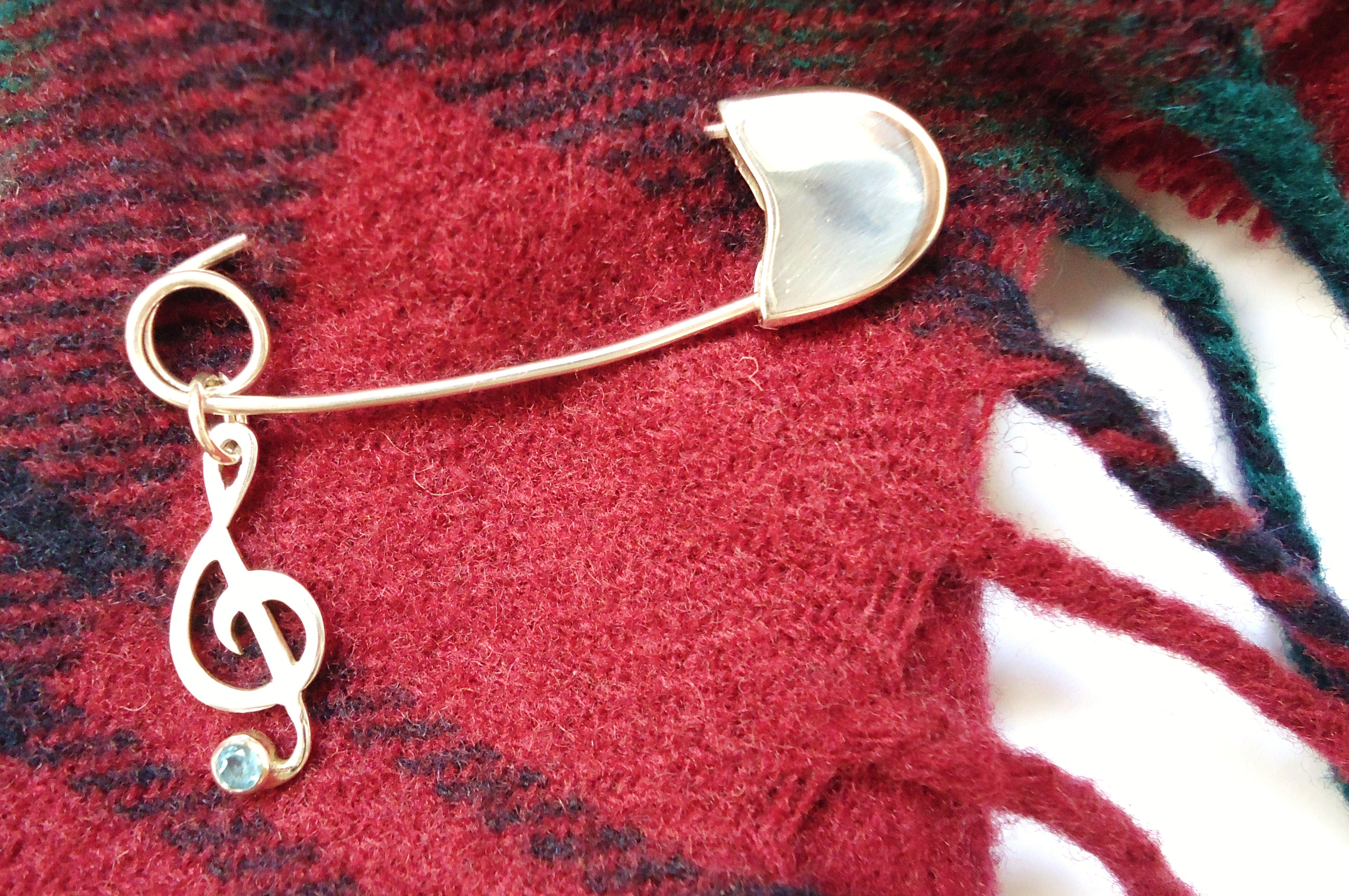 Silver and blue topaz safety pin, by Mauro Cateb, Brazilian jeweler and silversmith.